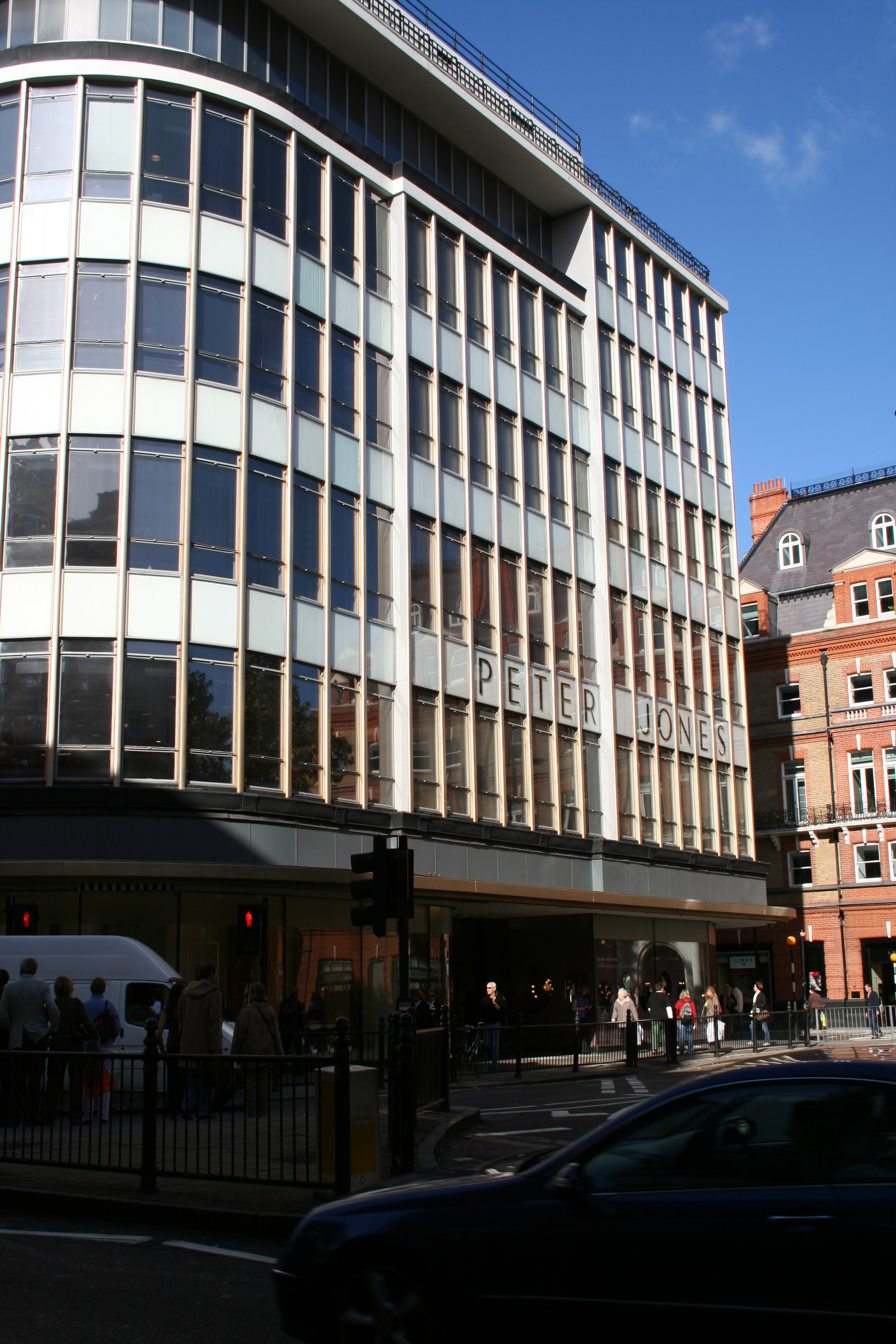 A view of Peter Jones in London with bad shadow.